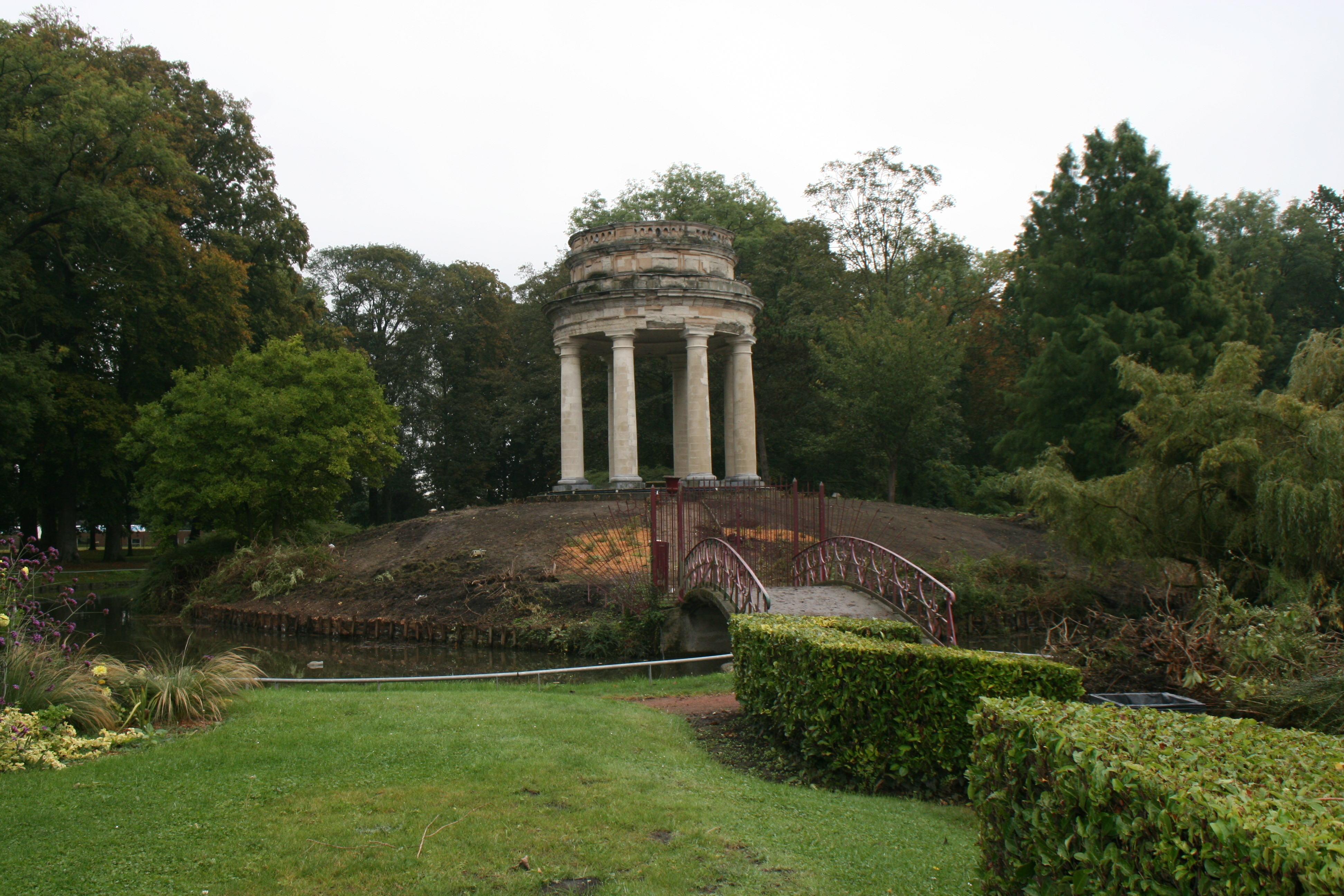 "Temple of love" (le temple de l'amour) located in the Joliot-Curie park. 3 buildings of this type exist in France. One is located in the Chateau de Versailles, near the Petit Trianon, and the other one is located in Paris, in the Buttes-Chaumont park.